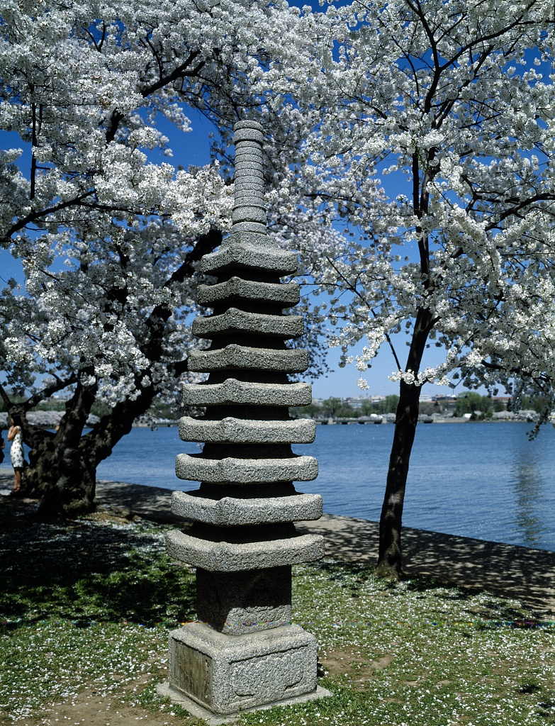 Japanese lantern on the Potomac River Tidal Basin during spring cherry blossom season, Washington, D.C.